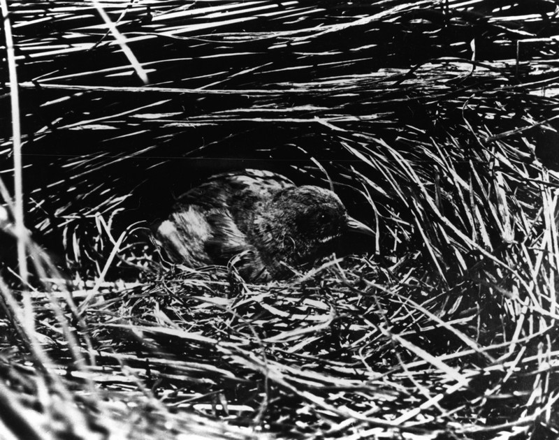 Laysan Crake (Porzana palmeri) breeding bird picture from 'Birds of Laysan and the Leeward Islands, Hawaiian Group' by Walter K. Fisher from the year 1906 Photo: by courtesy of the Freshwater and Marine Image Bank